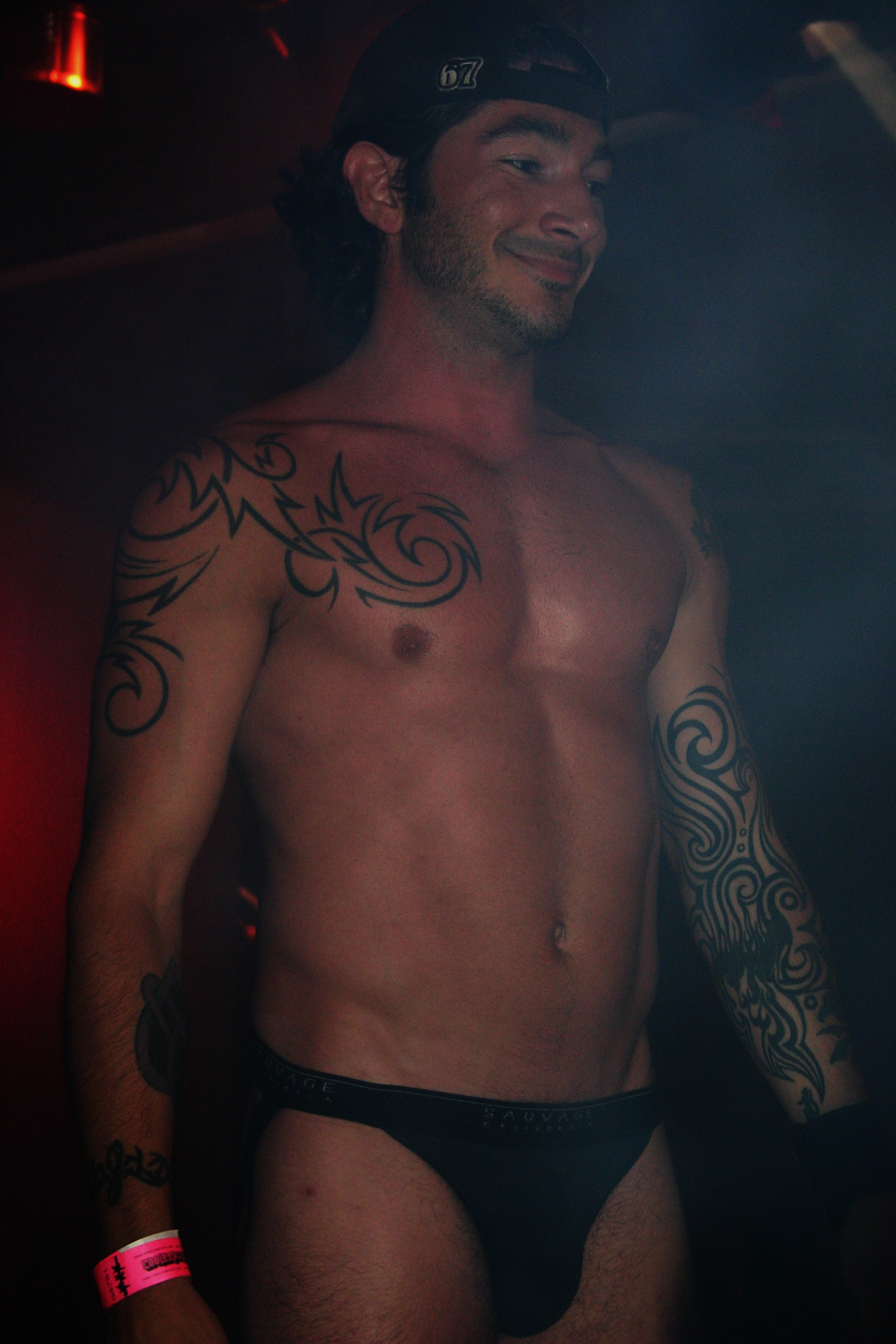 The 2007 Grabby Awards after-party at Circuit: Chi Chi fave Johnny Hazzard struts his stuff